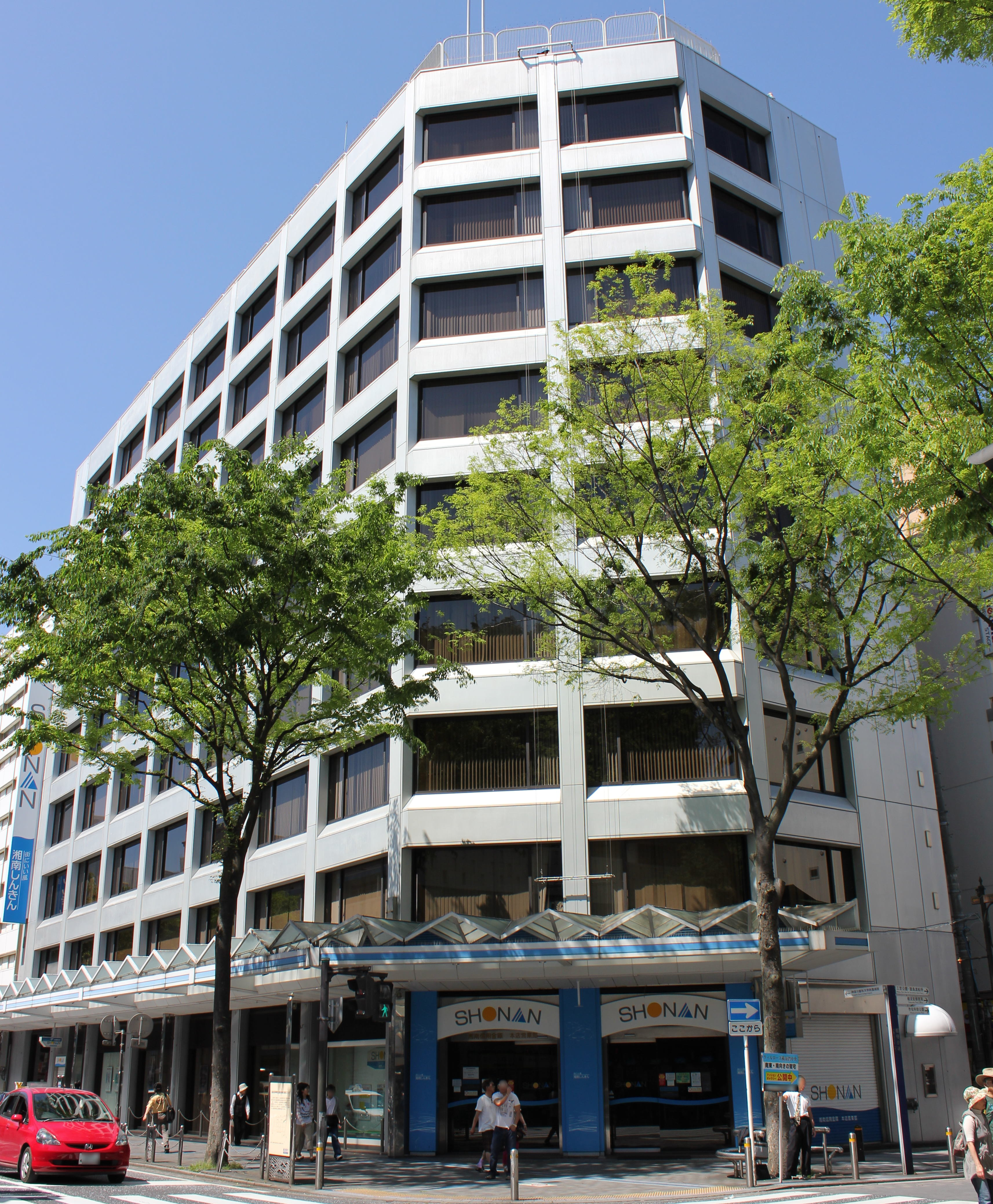 Shonan Shinkin Bank Head Store